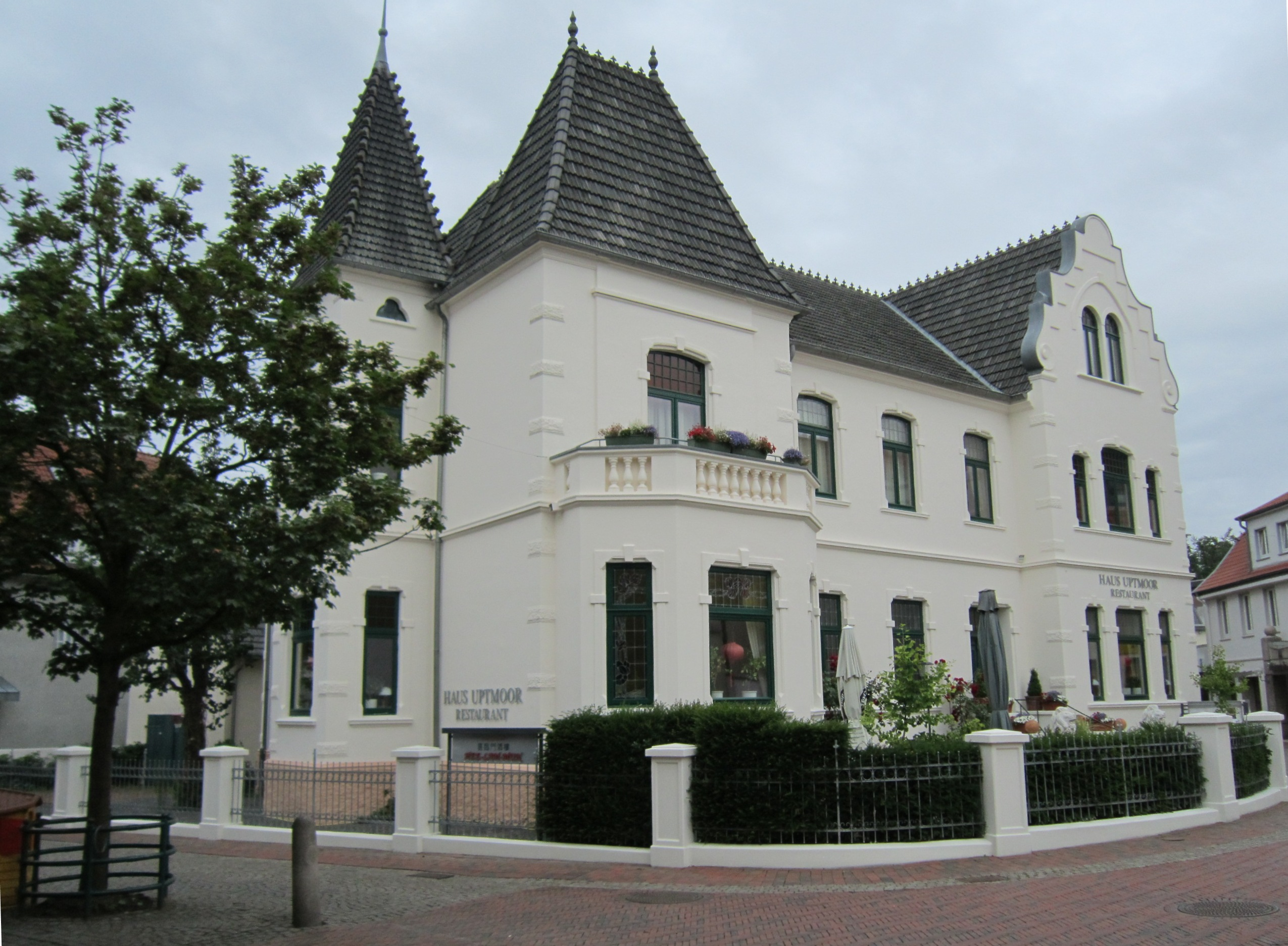 Villa Uptmoor in Lohne, birth place of Luzie Uptmoor (paintress)